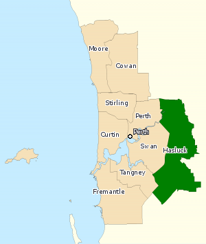 This image incorporates data that is: © Commonwealth of Australia (Australian Electoral Commission) 2009 Division of Hasluck 2010